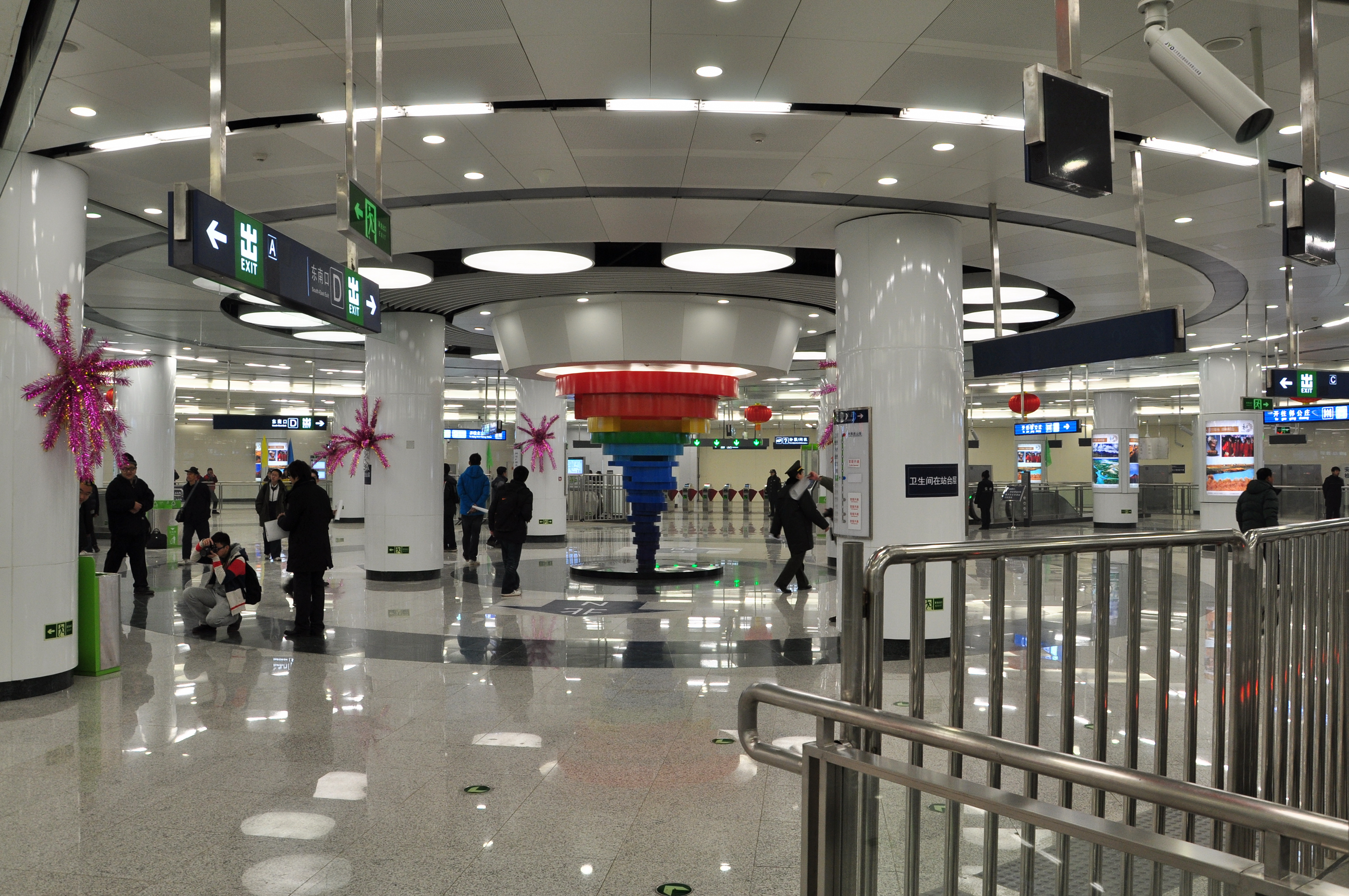 The hall of Liuliqiao station, Lines 9 & 10, Beijing Subway.